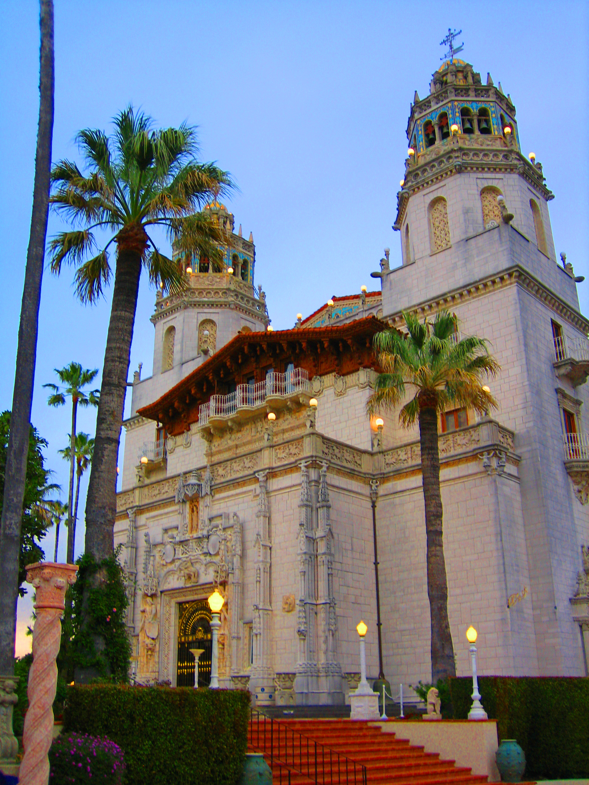 Casa Grande is the 60,645 sq.ft. mansion on the estate of William Randolf Hearst. Located at San Simeon, California the main building has 38 bedrooms, 41 bathrooms and museum quality artwork, tapestries and furnishings. The architect was Julia Morgan.